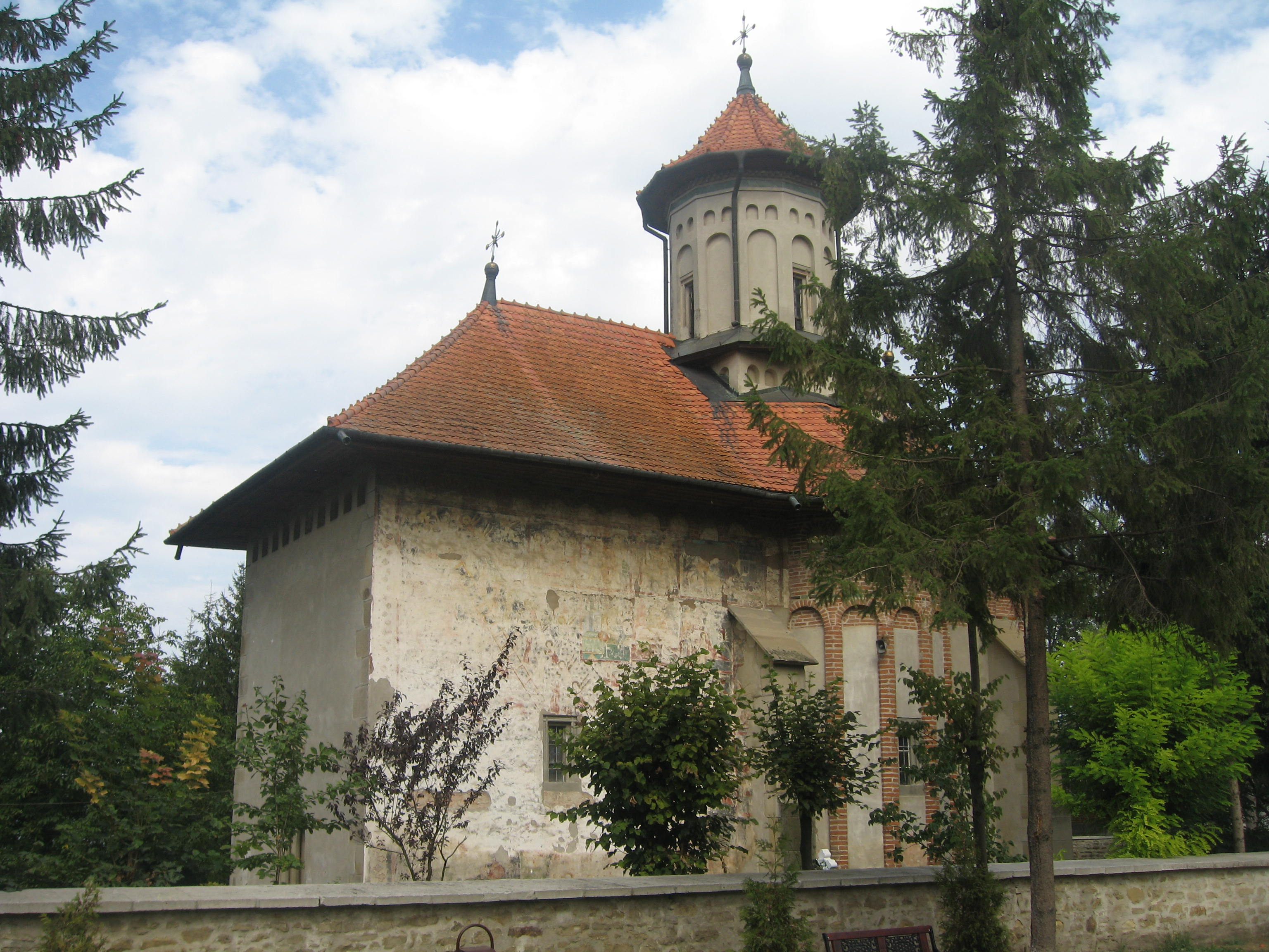 Biserica Sfântul Ilie din Sfântu Ilie 01